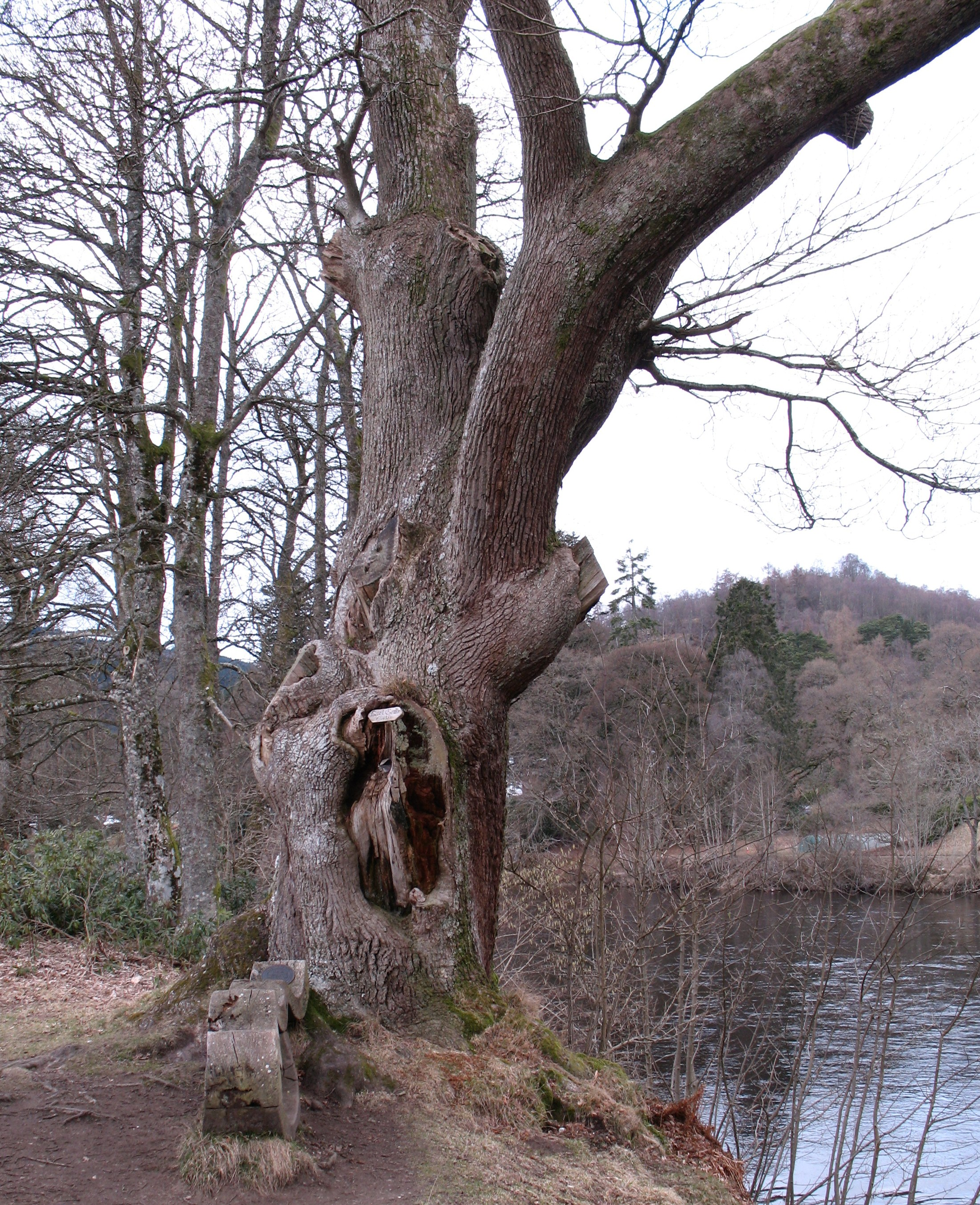 Niel Gow's Oak